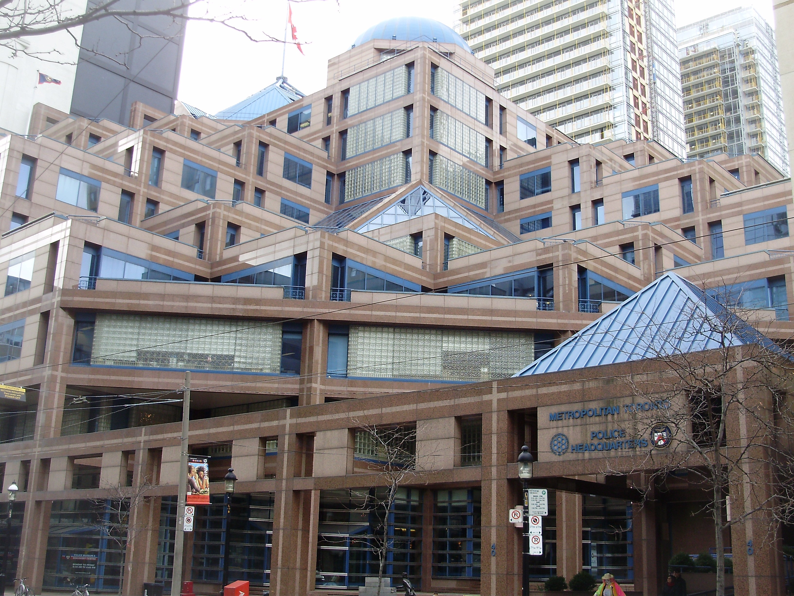 The Toronto Police Headquarters, photographed from the south side of College Street in downtown Toronto, Ontario, Canada. Nearly eleven years after municipal amalgamation, the building retains its original Metropolitan Toronto Police signage.